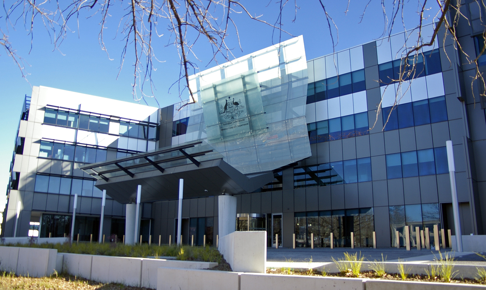 Attorney-General's Department in the Canberra suburb of Barton, Australian Capital Territory